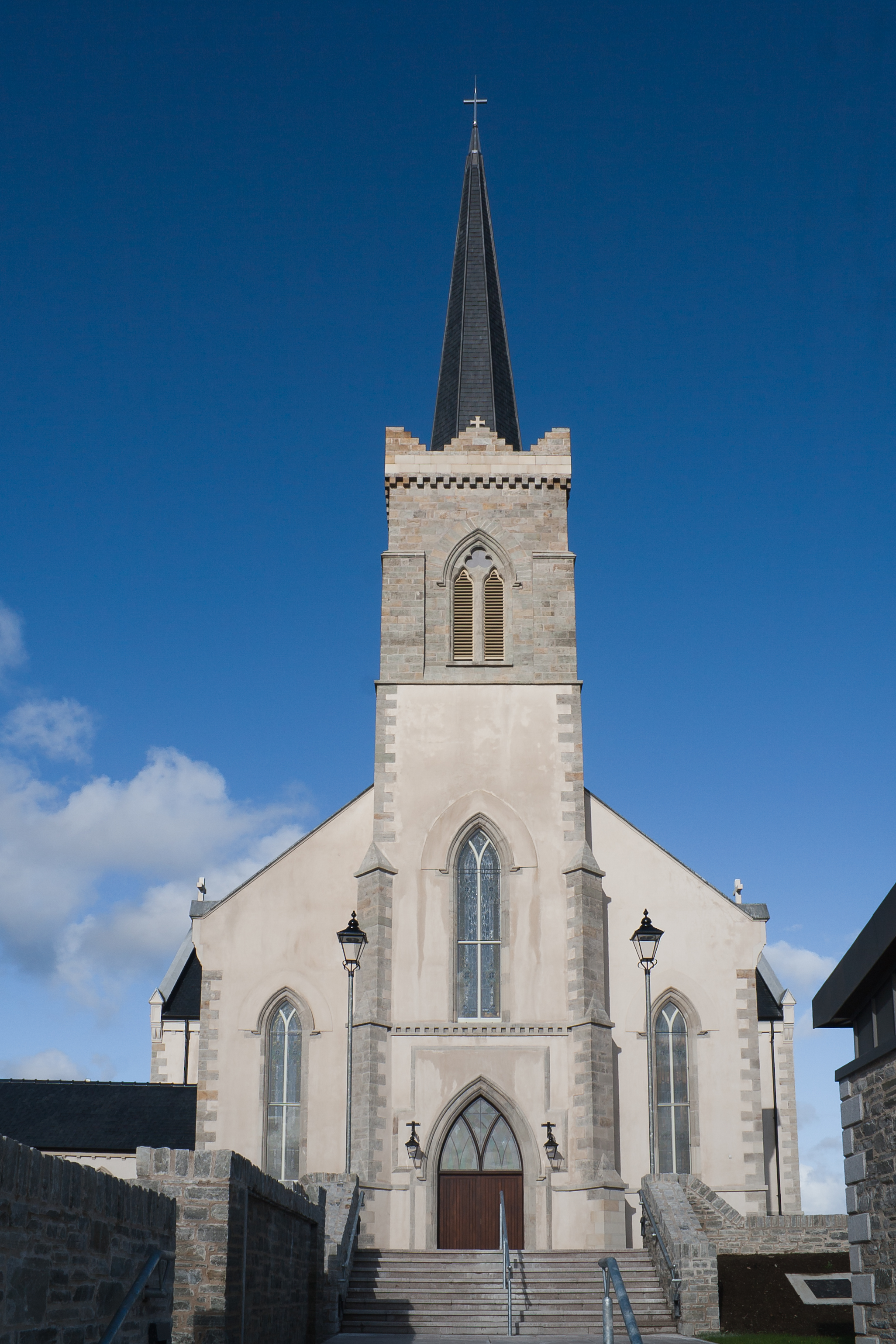 West façade of St. Mary of the Visitation Church after the restoration works from 2011/2012.